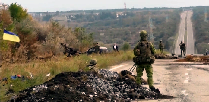 Ukrainian government troops in Donbass, September 10, 2014.